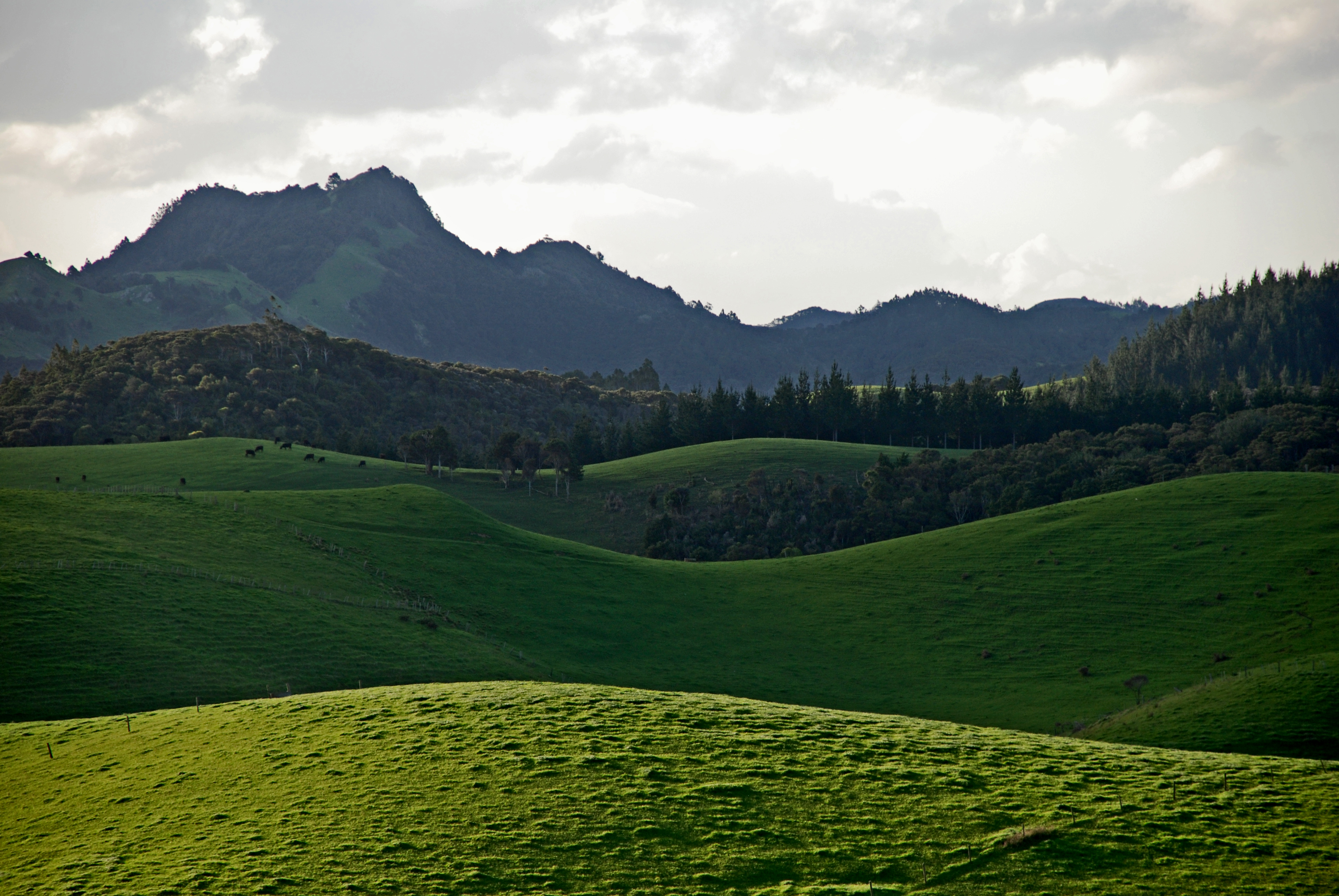 Rolling hills at Pataua in the Northland region, New Zealand.